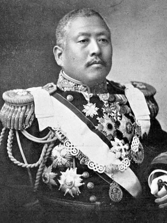 Makoto Saito was a Japanese naval officer and Governor-General of Korea.